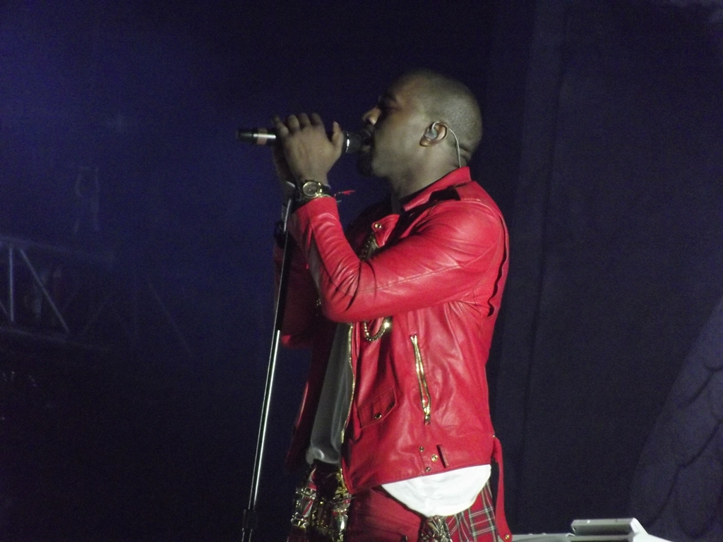 Kanye West performing the song "Runaway" at the Coke Live Music Festival on August 20, 2011 in ̺Kraków, Poland.